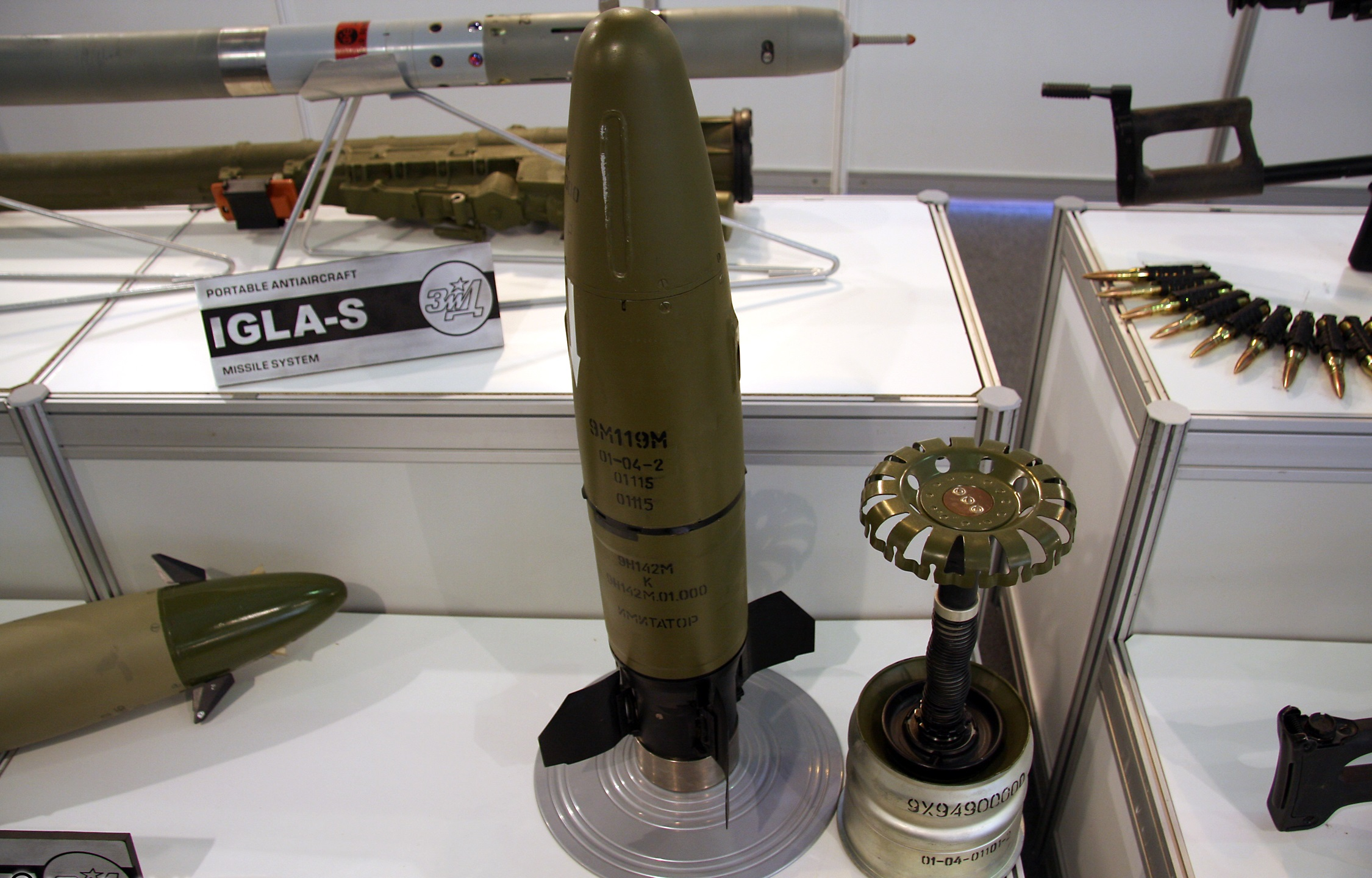 3UBK20 ammunition with 9M119M guided anti-tank missile.